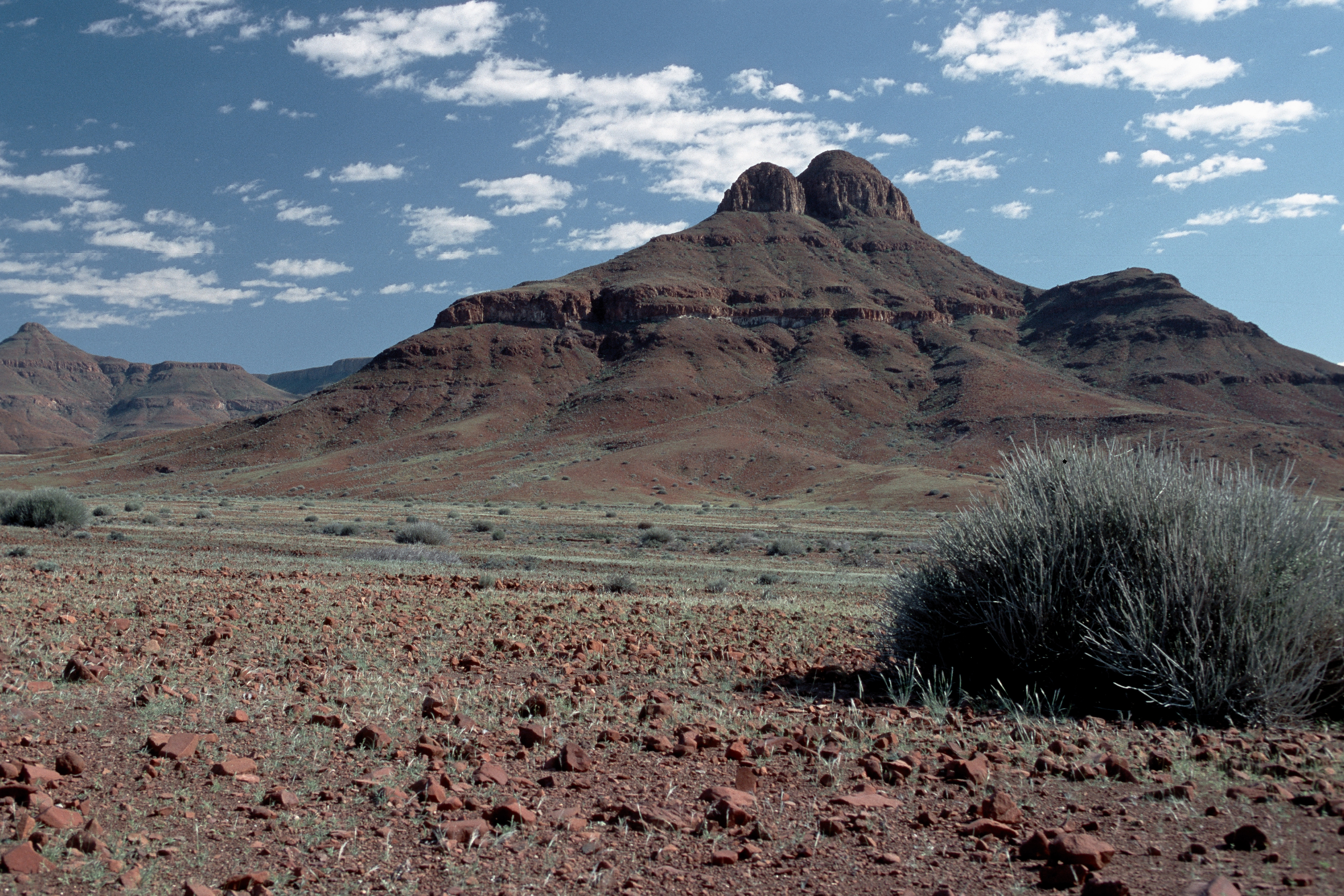 Landscape north of Orupembe in the Kaokoveld, some 250km north of Palmwag in Damaraland